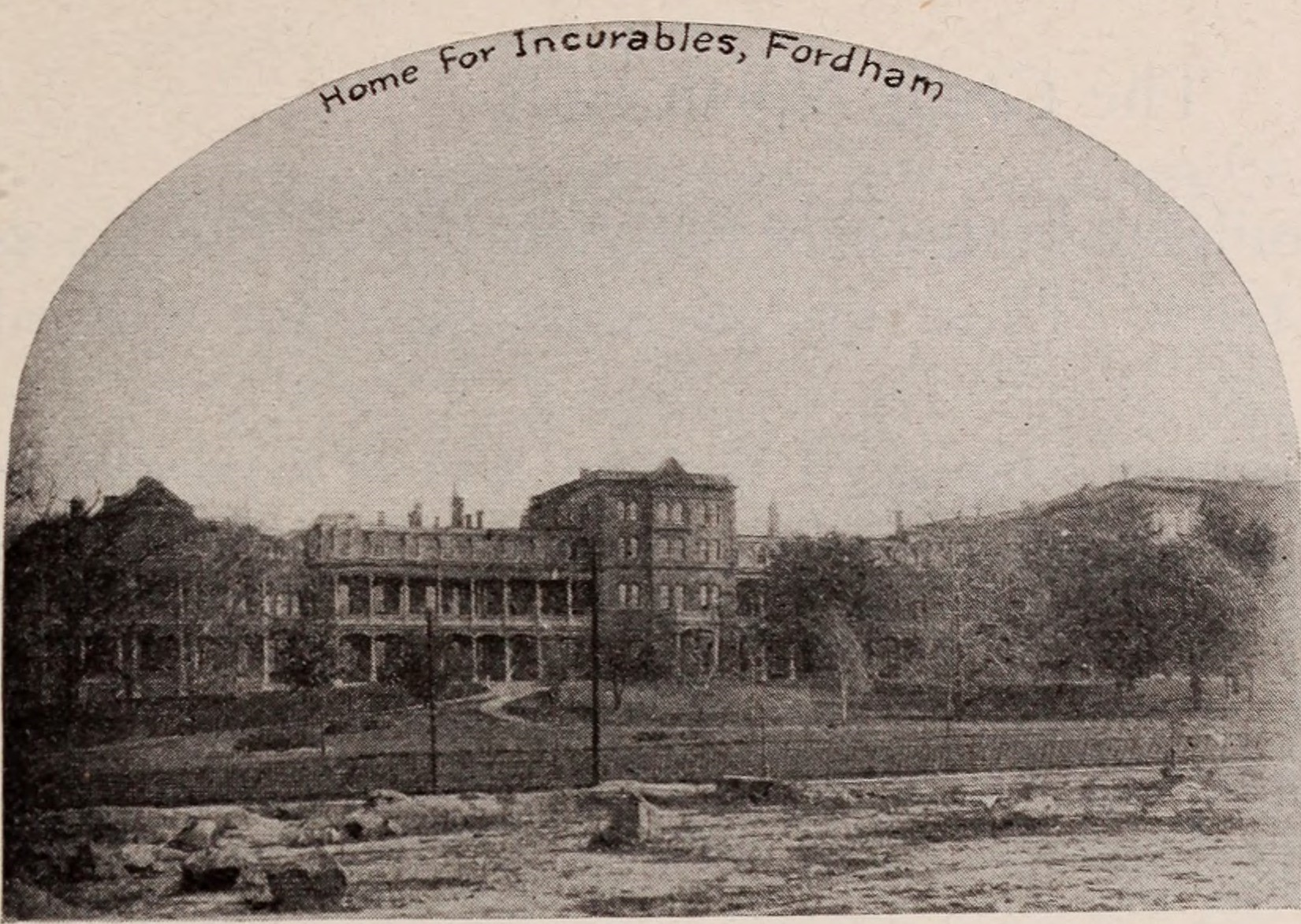 Home for the Incurables, Fordham, Bronx. Now St. Barnabas Hospital, Bronx. Cropped from - centering the image and removing the confusing upper part of another image.